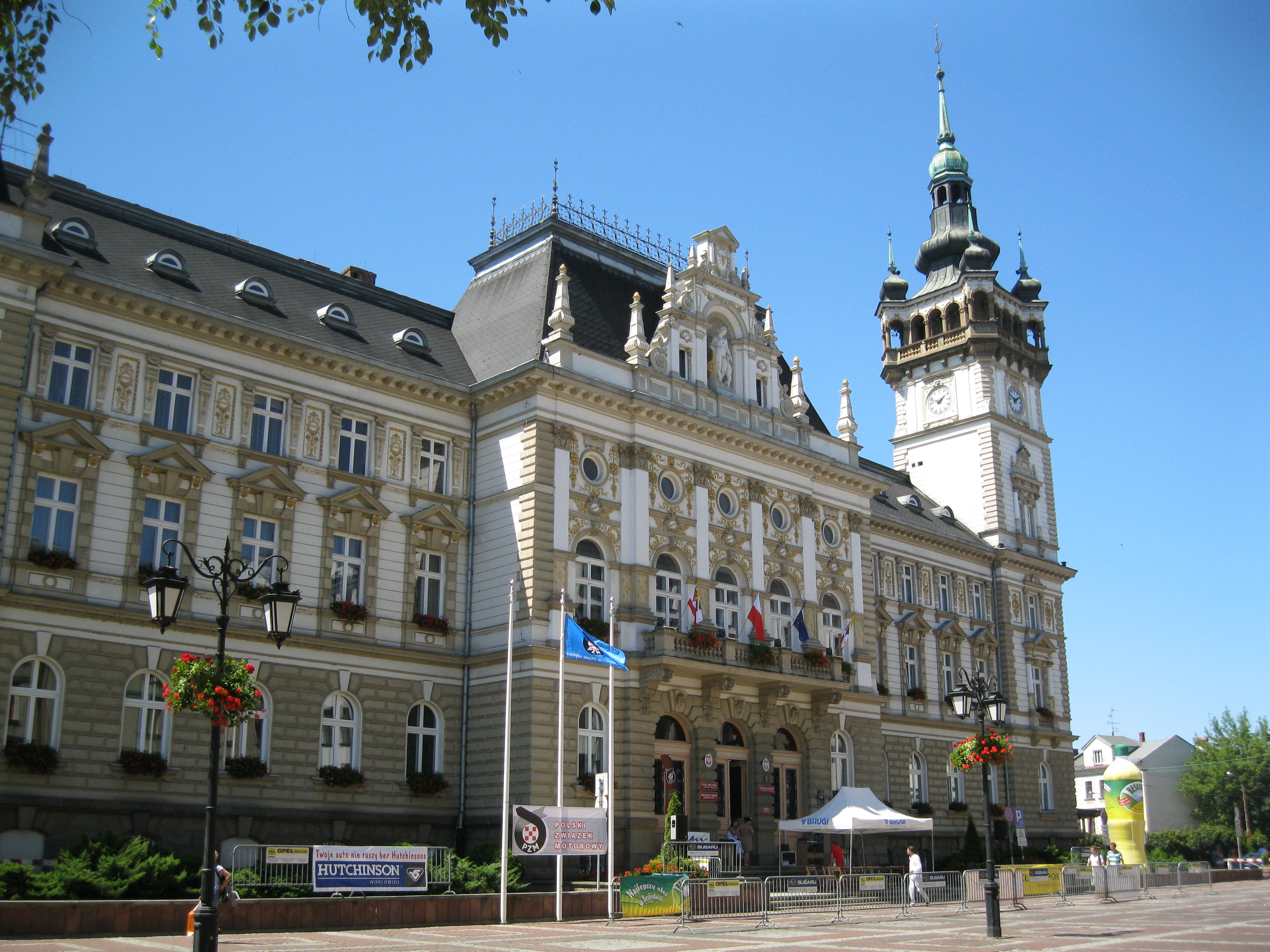 City Hall in Bielsko-Biala